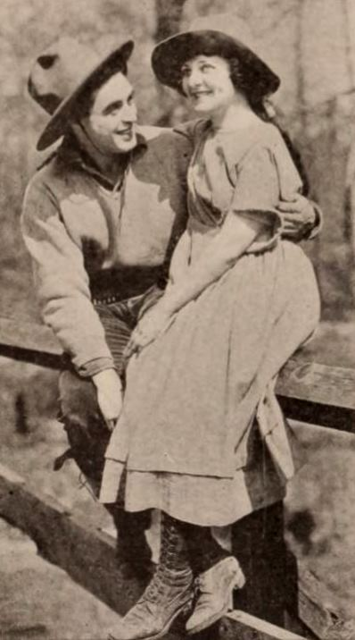 Still from the American drama film The Dead Line (1920) with George Walsh and Irene Boyle, on page 72 of the June 12, 1920 Exhibitors Herald.